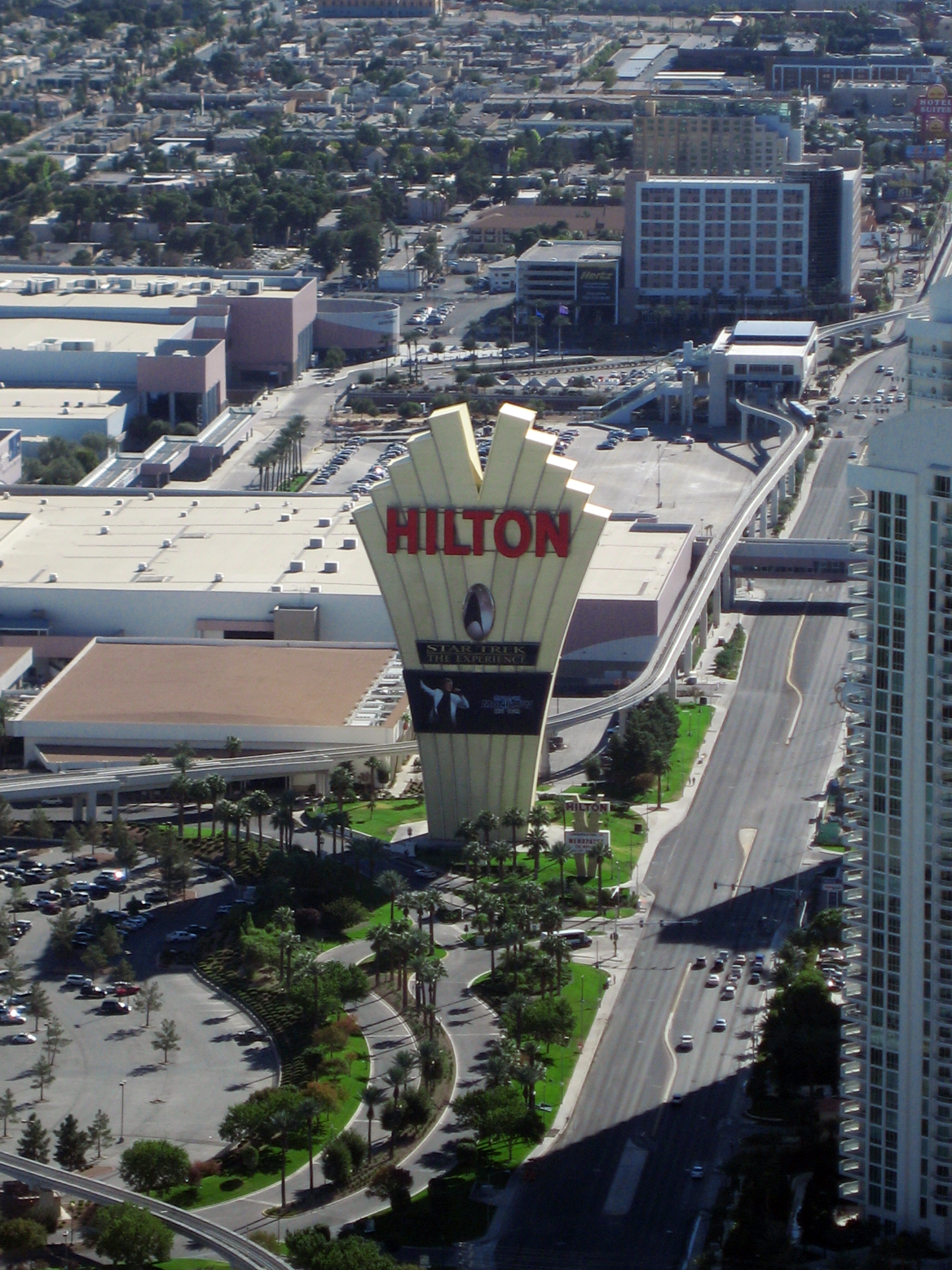 Cool looking sign for the Hilton. No Star Trek Experience there anymore, so I didn't go there. Taken from the top of the Stratosphere. See where this picture was taken. [?]